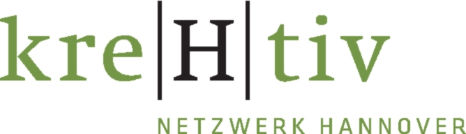 Official Logo of the creative network called "kreHtiv Hannover"